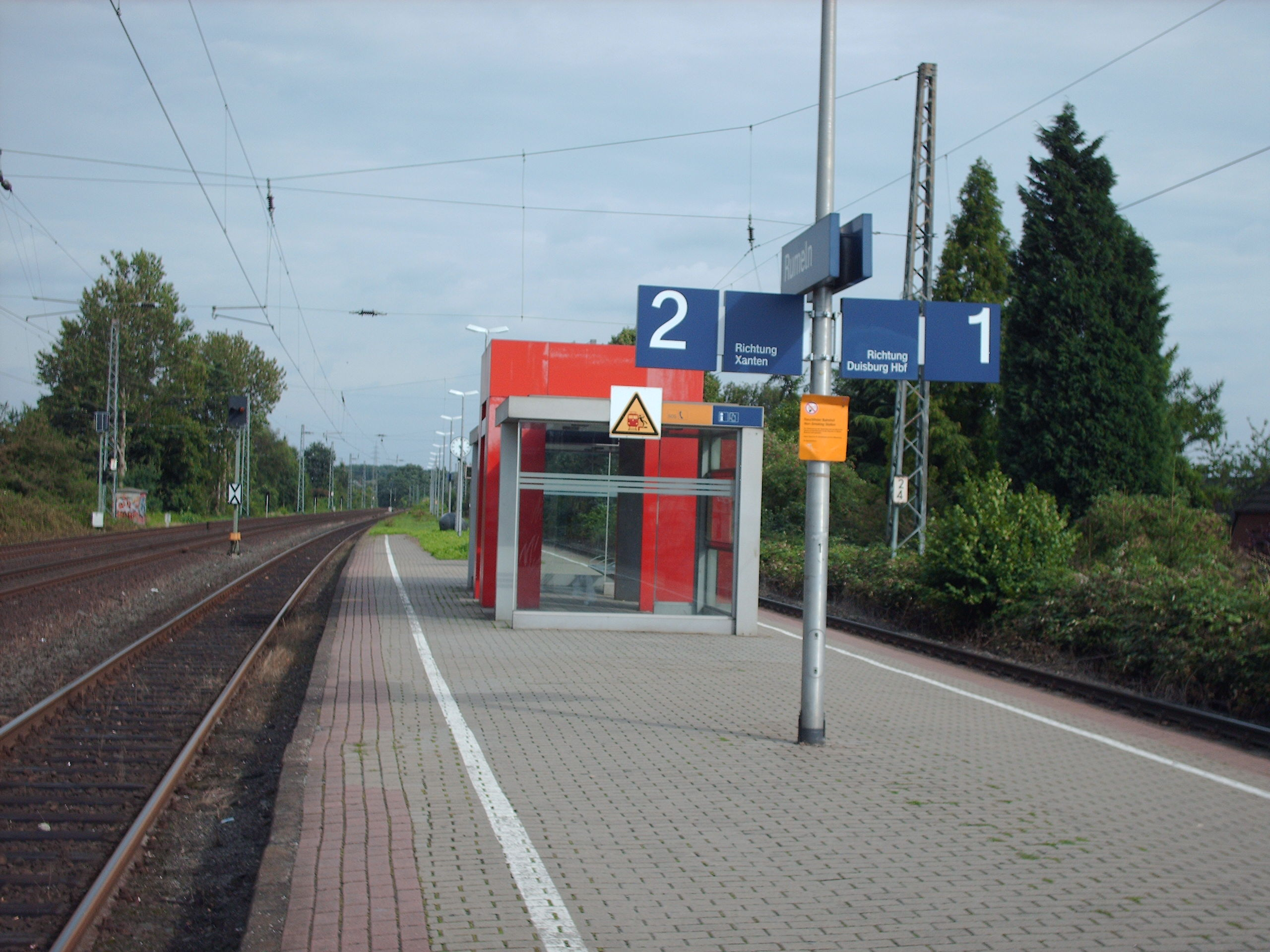 Rumeln station, Duisburg, Germany check usage